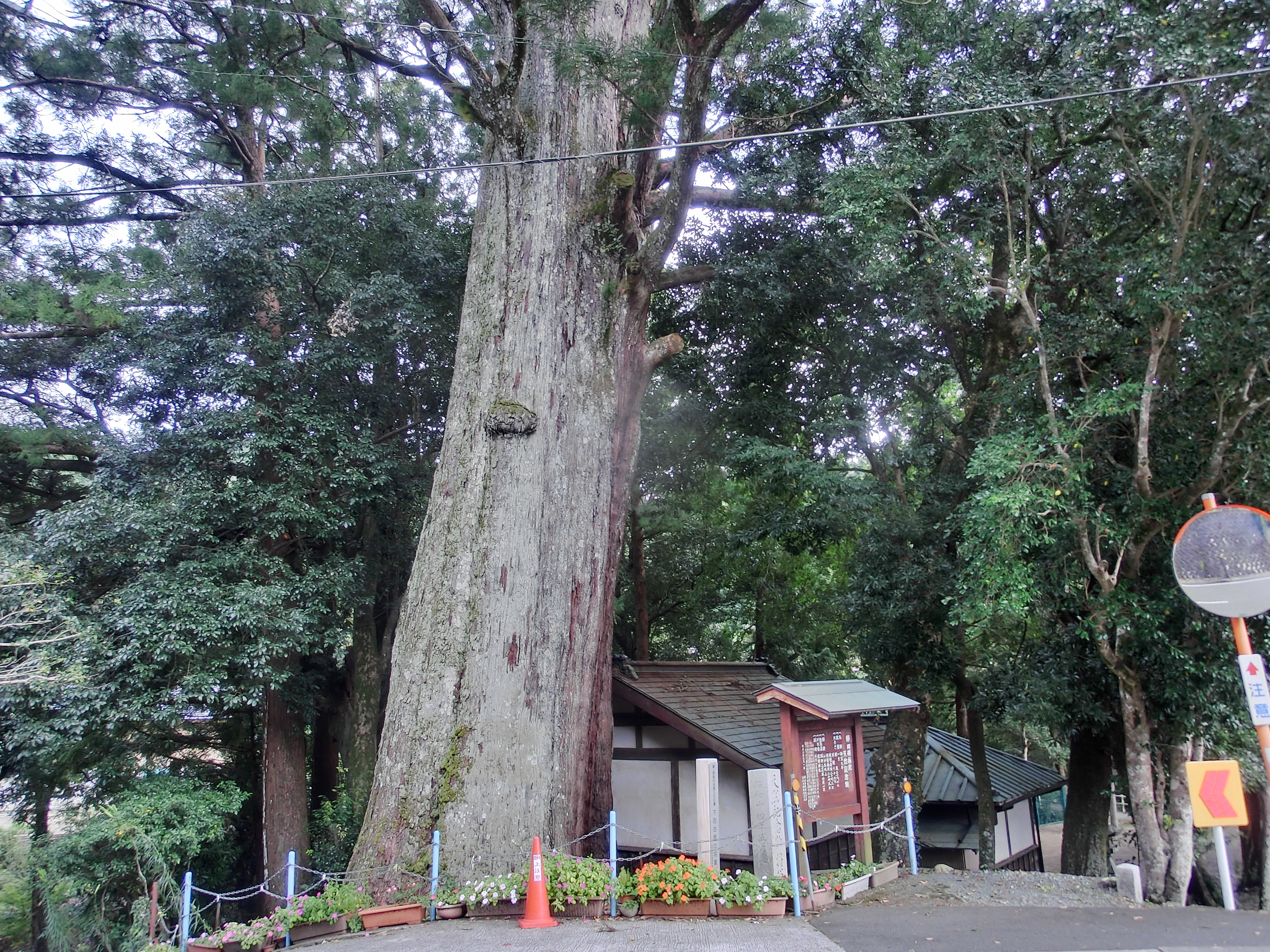 Shōgun sugi, Hamamatsu city, Shizuoka pref., Japan.